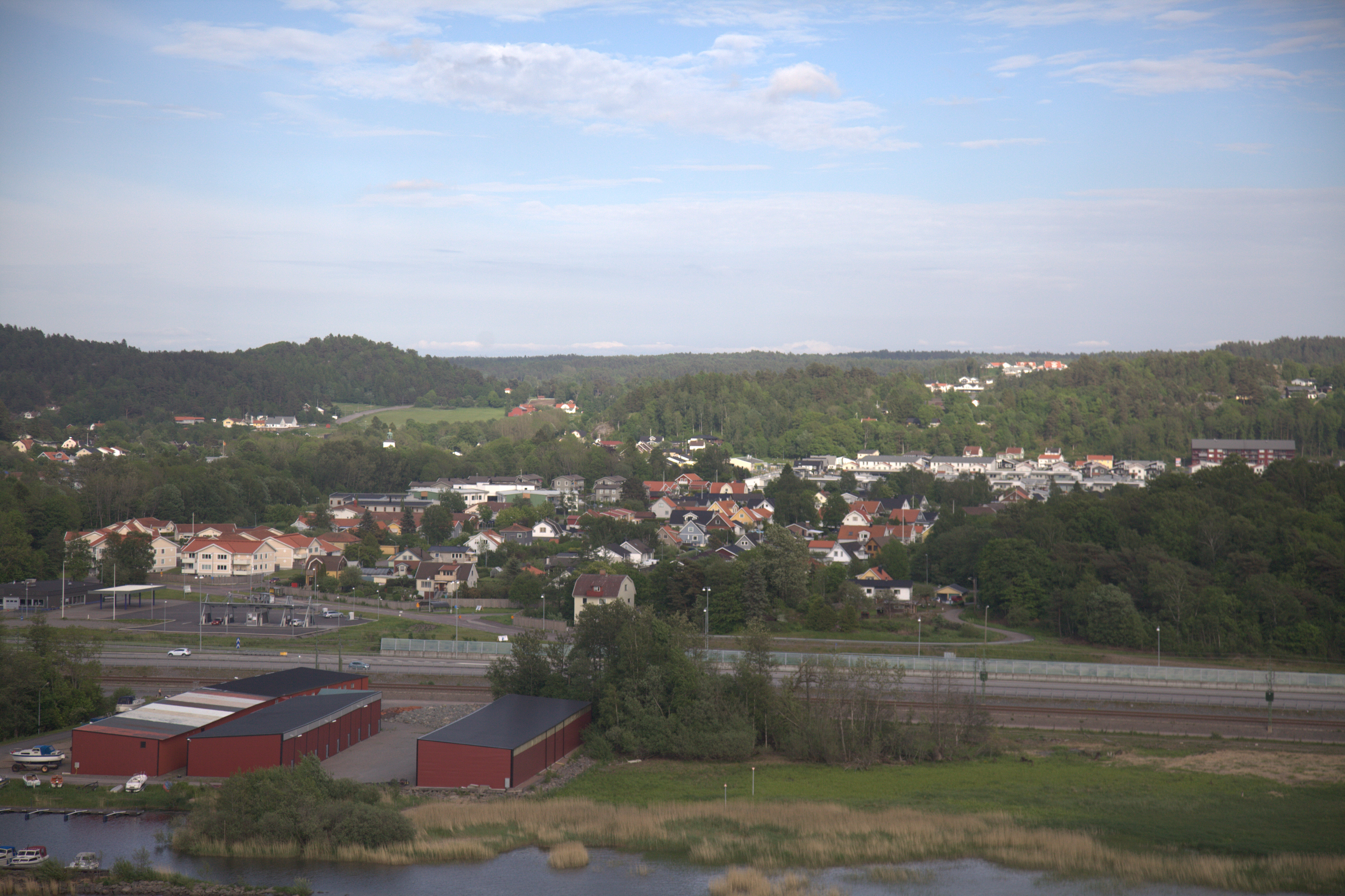 Nödinge seen from Mariebergs naturreservat. Older photo of the same view: File:Nodinge1.jpg.